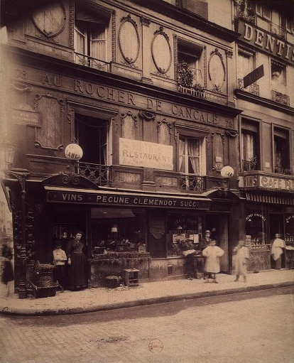 Restaurant "Au rocher de Cancale" (=the rock of Cancale, a town on the Channel) in its place now (the original place was at n°59) : 78 rue Montorgueil, Paris 2nd arr.